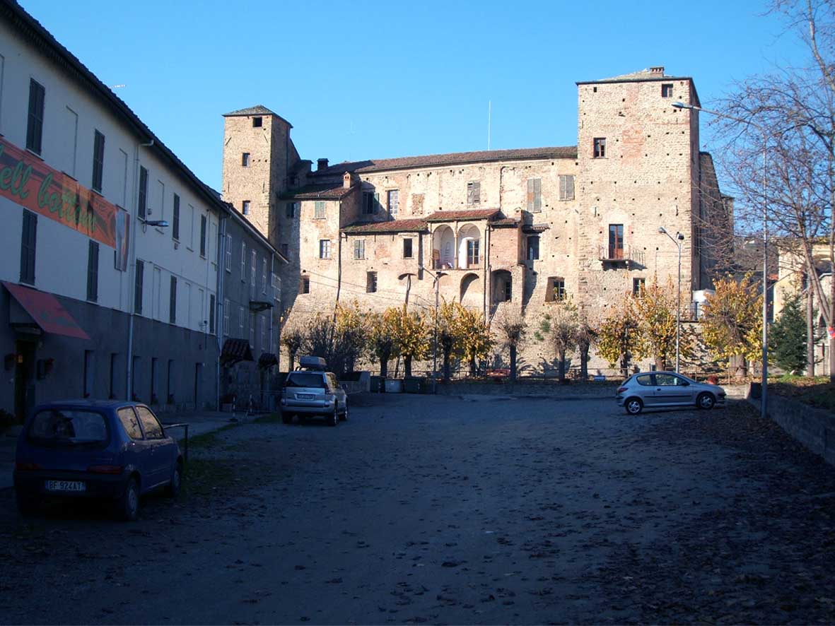 Monastero Bormida, a municipality in the Province of Asti, Liguria, Italy.